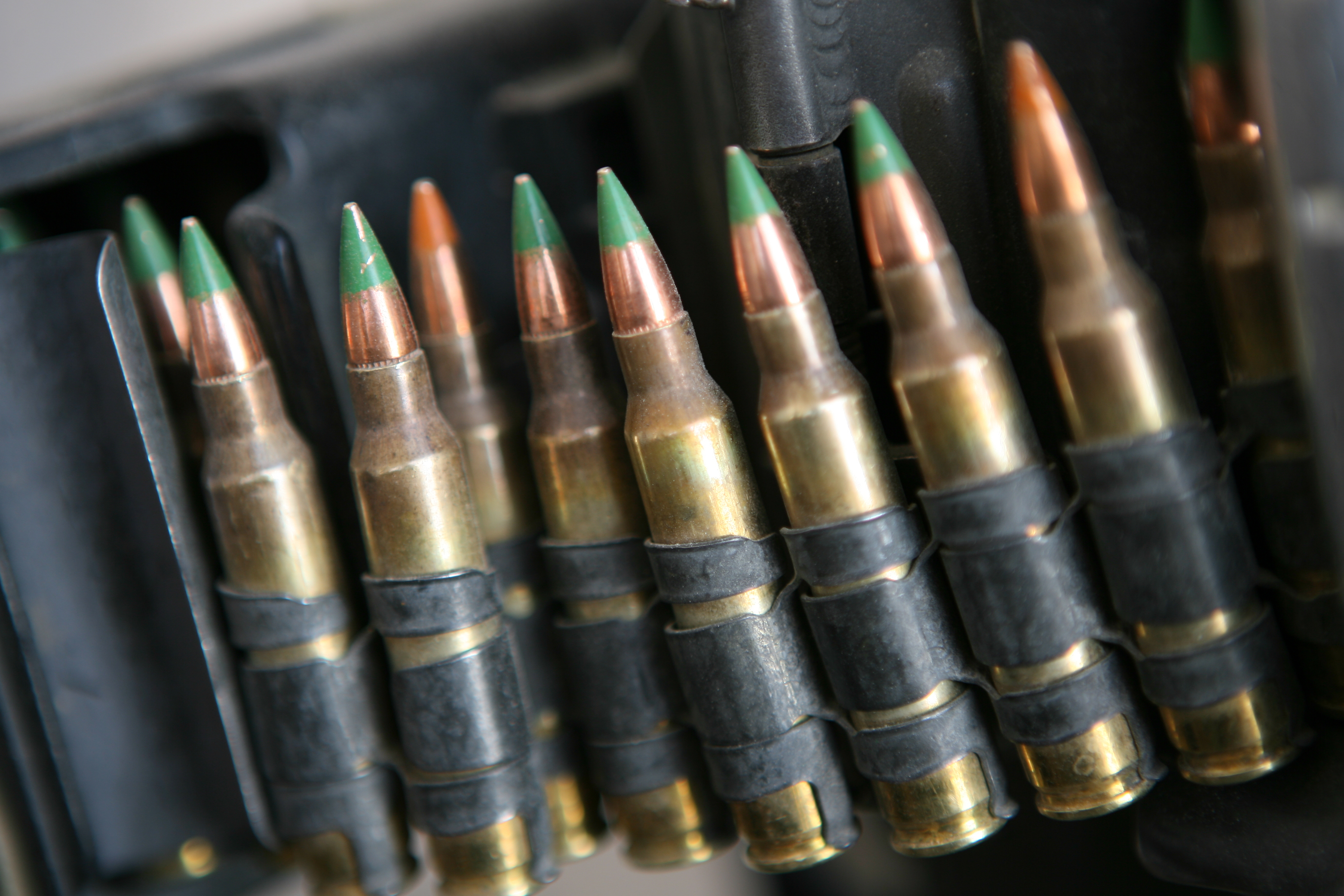 Summary Belted bullets for an M-249 squad automatic weapon are among the many tools of the trade Marines for 2nd Battalion, 6th Marine Regiment, Regimental Combat Team 5. A group of Marines from Company E wrapped up their last planned operation recently and is preparing to redeploy to Camp Lejeune, N.C. They will be replaced in Fallujah by Marines from 1st Battalion, 25th Marine Regiment. Photo by: Gunnery Sgt. Mark Oliva Photo ID: 200633022942 Submitting Unit: 1st Marine Division Photo Date:03/27/2006